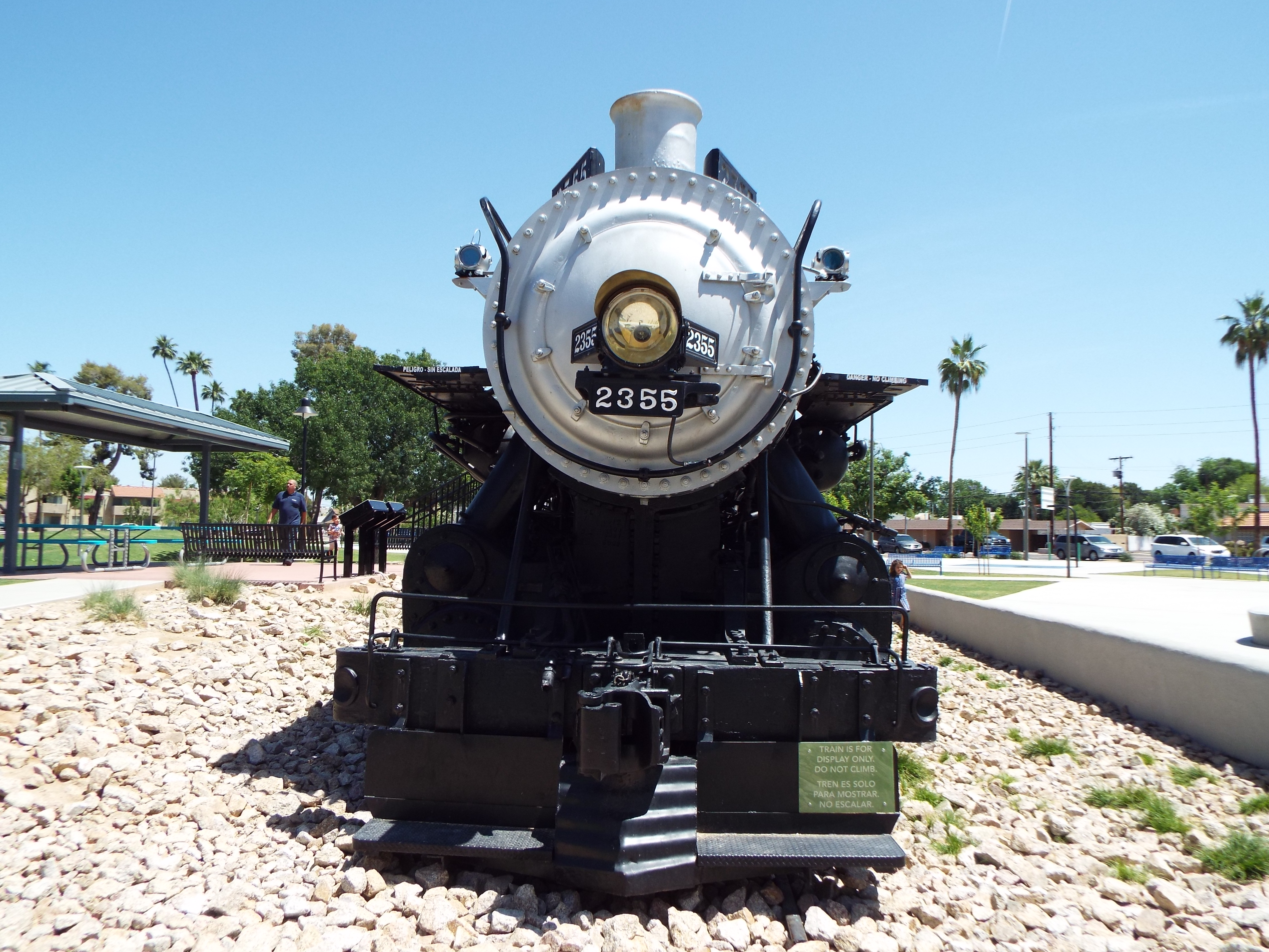 Historic Southern Pacific Railroad (SP) 2355 Steam locomotive in Mesa, AZ